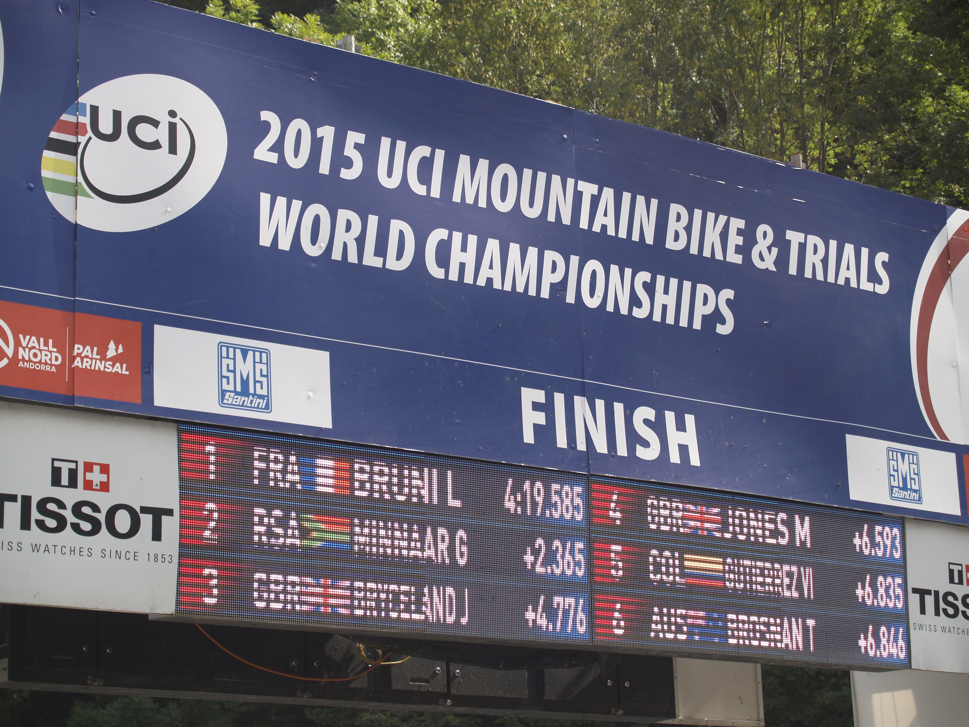 Downhill final in the 2015 UCI Mountain Bike and Trials World Championships